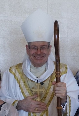 Bishop of the Catholic Diocese of Palm Beach, Florida